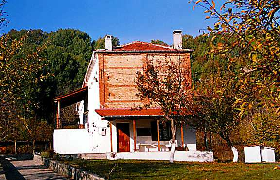 Outside view of the Museum, image from the Folklore Museum, Kastanofyto, West Macedonia, Greece